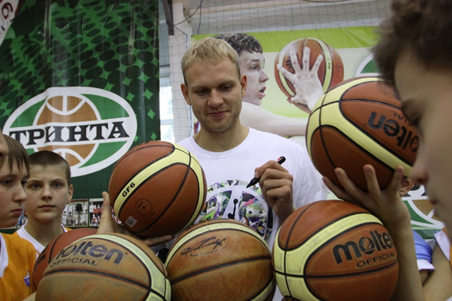 Russian bball player